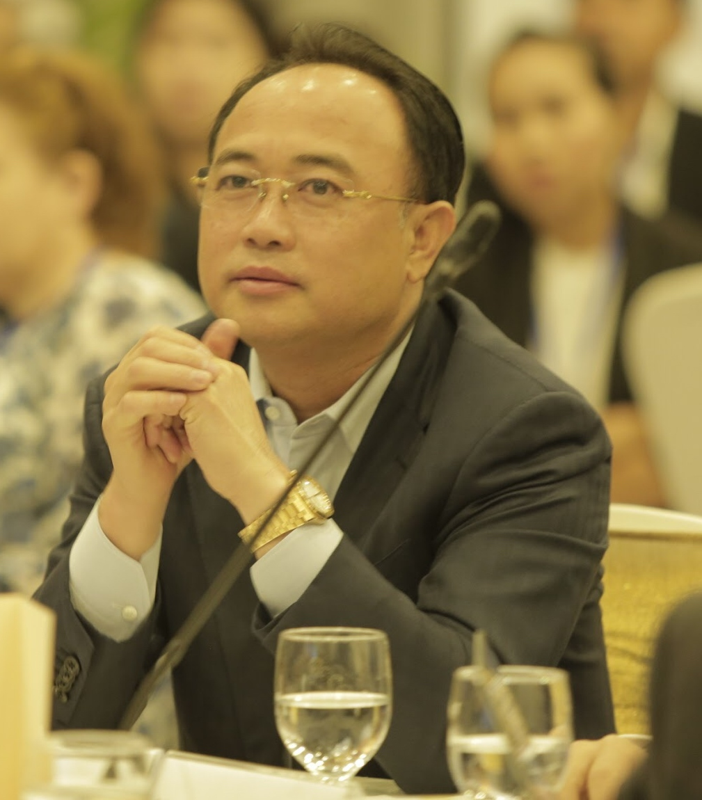 This photo is taken by Royal Group on January 2019. Uploaded per request at FFU (permalink)